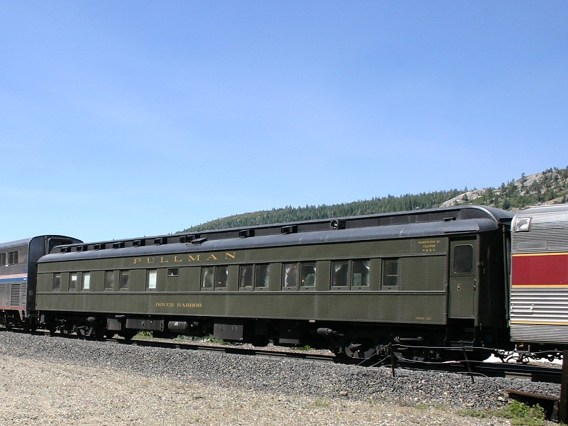 Dover Harbor the oldest operational Pullman railcar in the United States